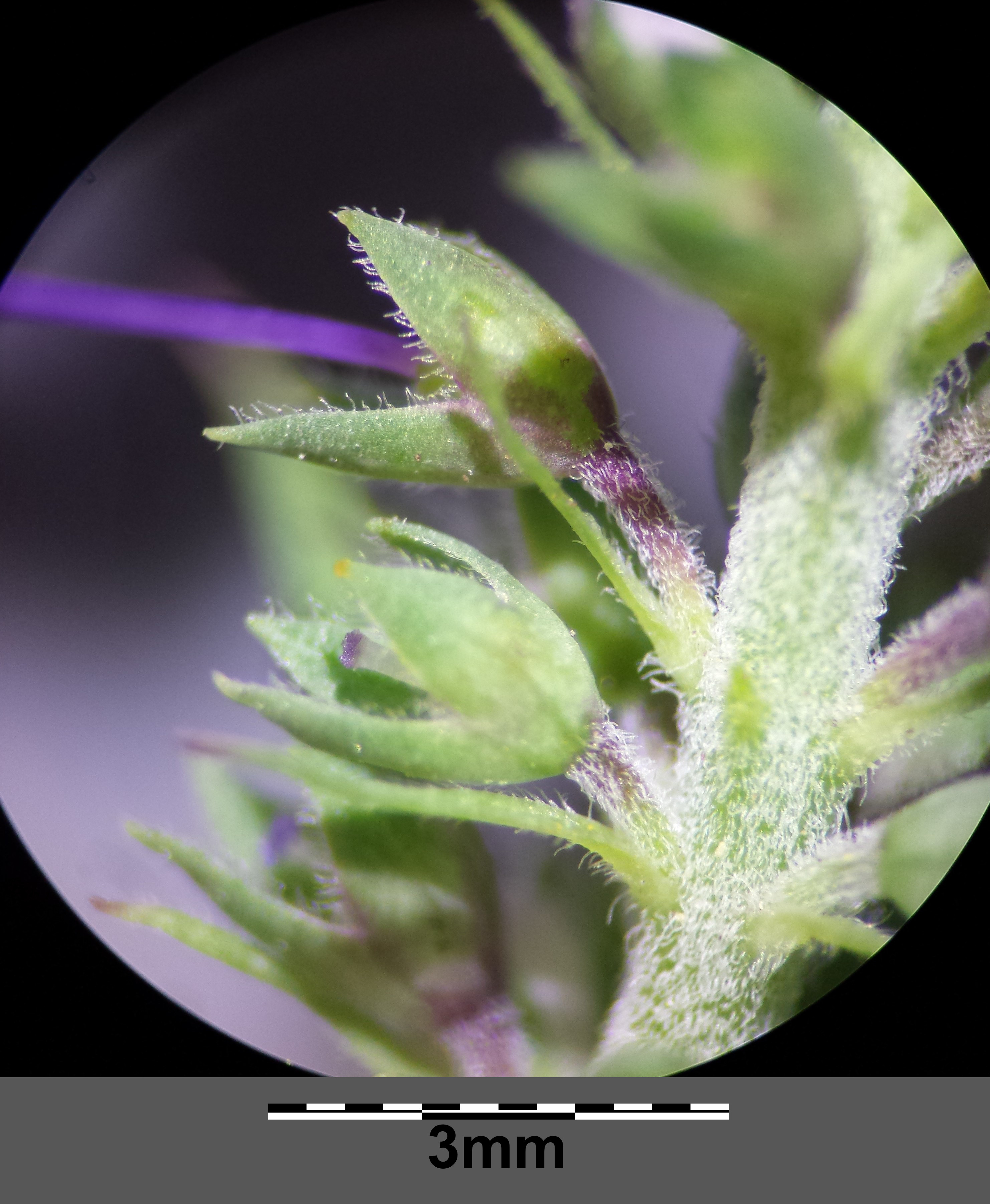 Fruits Taxonym: Veronica maritima ss Fischer et al. EfÖLS 2008 ISBN 978-3-85474-187-9 Location: pond near Michelstetten, district Mistelbach, Lower Austria - ca. 250 m a.s.l. Habitat: shore of a pond